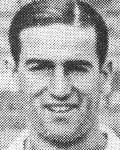 French footballer (professional career ended in 1939)